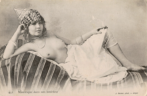 Jean Geiser postcard